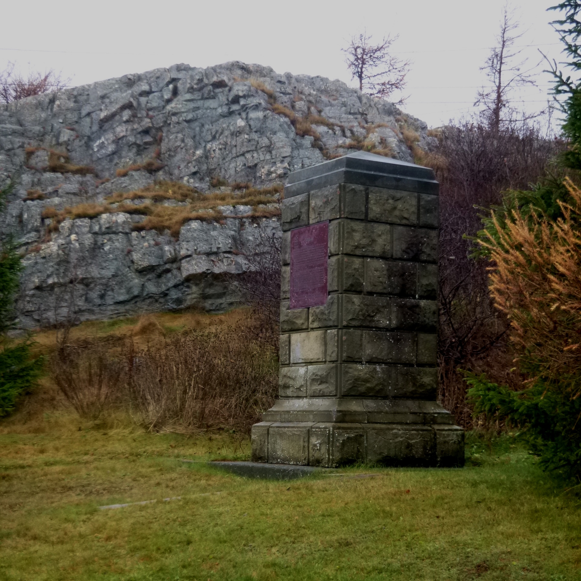 Monument and plaque at Torbay NL commemorating the victory over the French by William Amherst, 1762